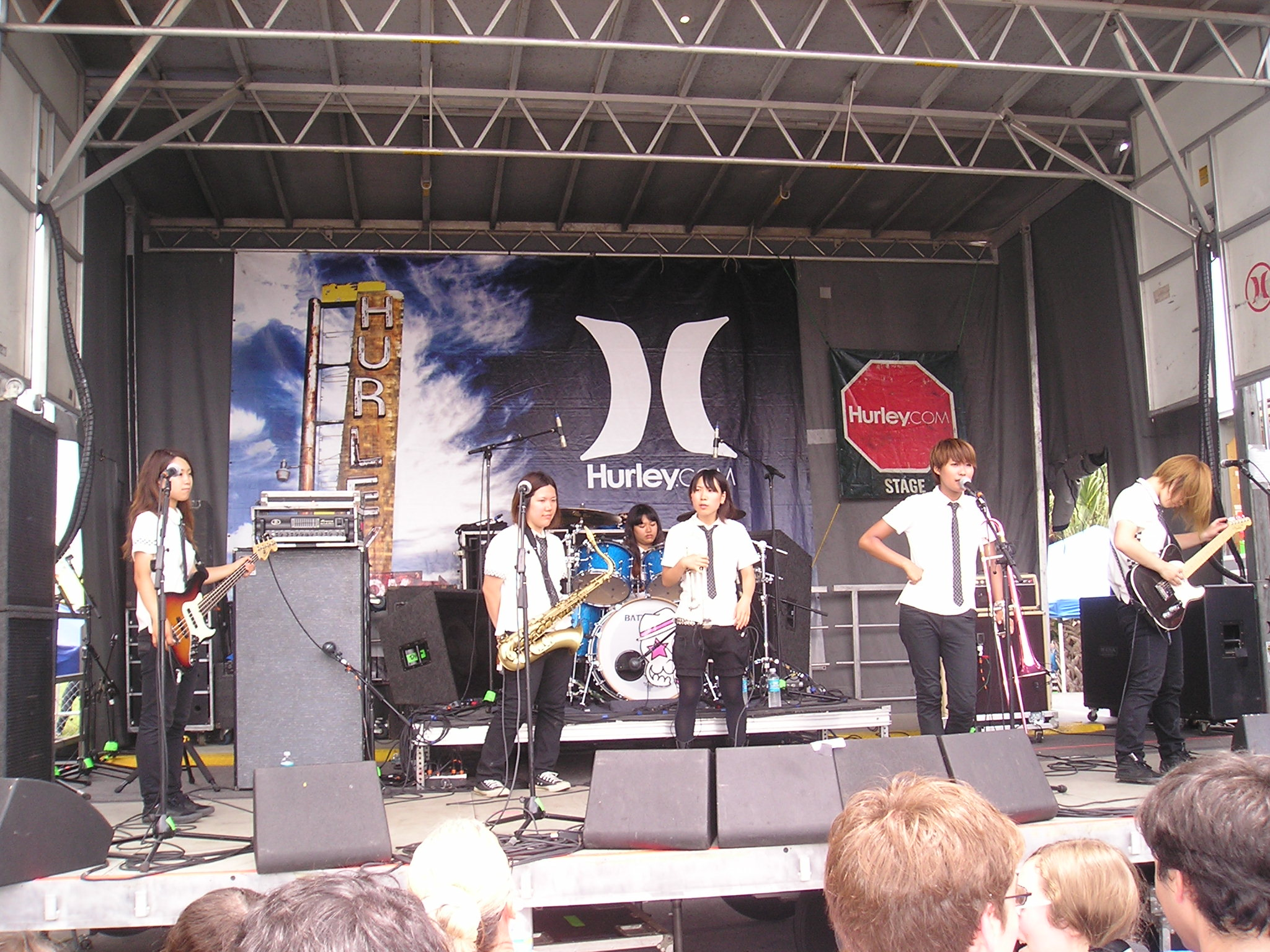 Oreskaband performing on 2008 Vans Warped Tour in Miami.